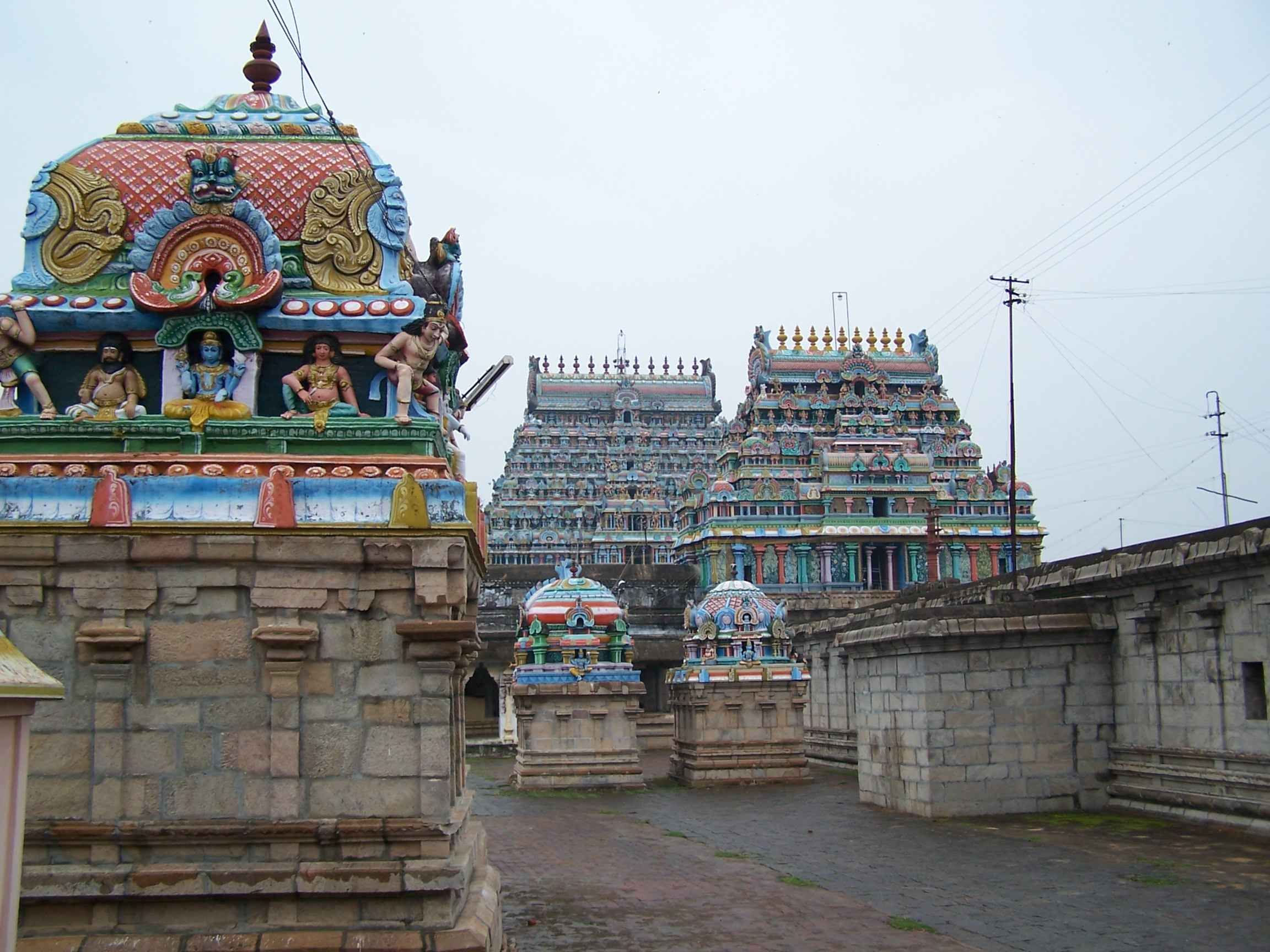 Thiruvarur